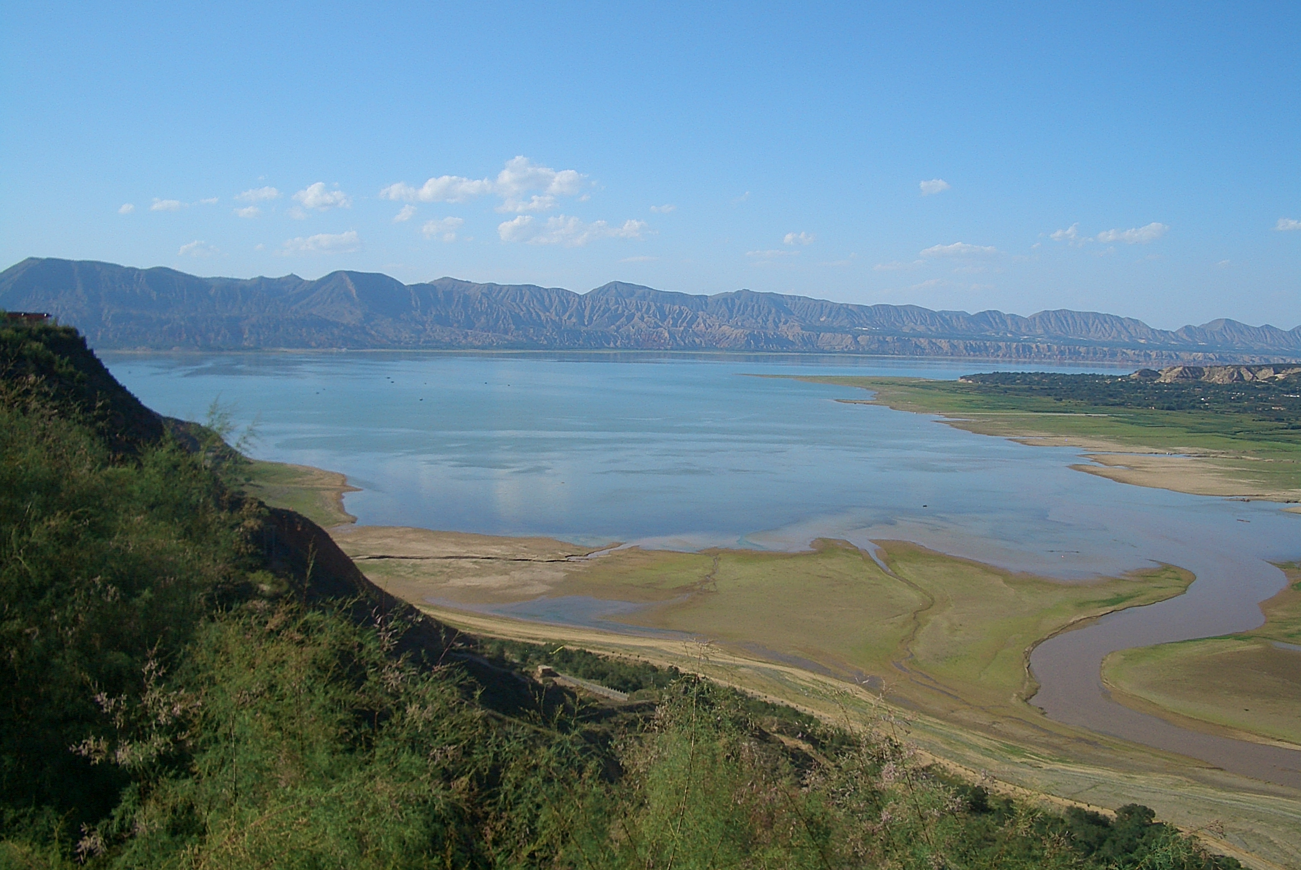 Looking down from the edge of a loess plateau to the Daxia River falling flowing into the Liujiaxia Reservoir. (In the northeastern part of Linxia County, probably in Xihe Township). The hills on the right beyond the river are in Dongxiang Autonomous County; those in the far background on the left, beyond the main body of the reservoir, in Yongjing County.